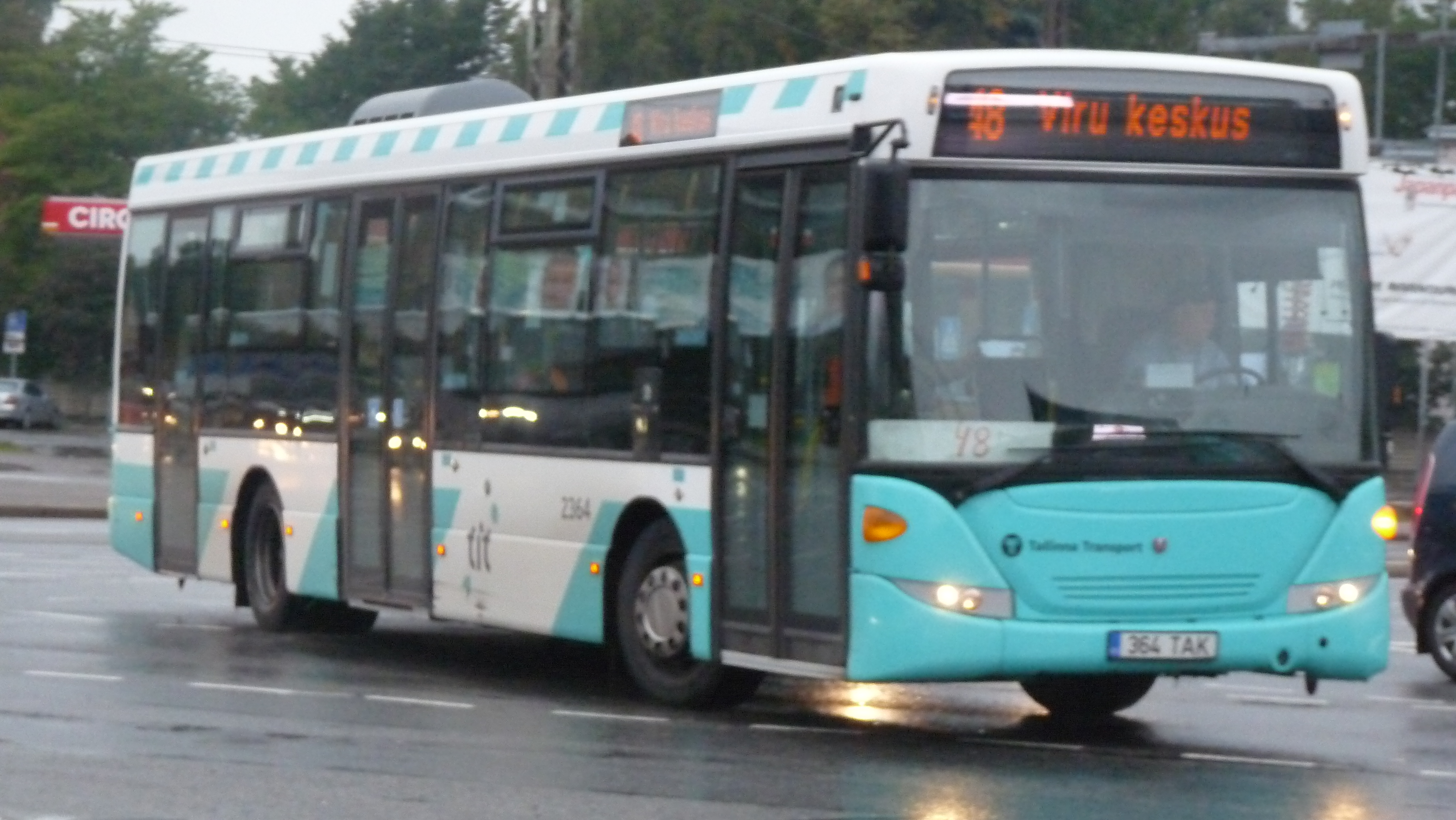 Scania bus in Tallinn, Estonia